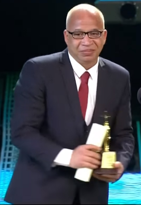 Egyptian actor Shereef Desoky - CIFF